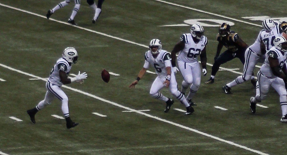 Jets running back Joe McKnight in st.louis, 11-18-12